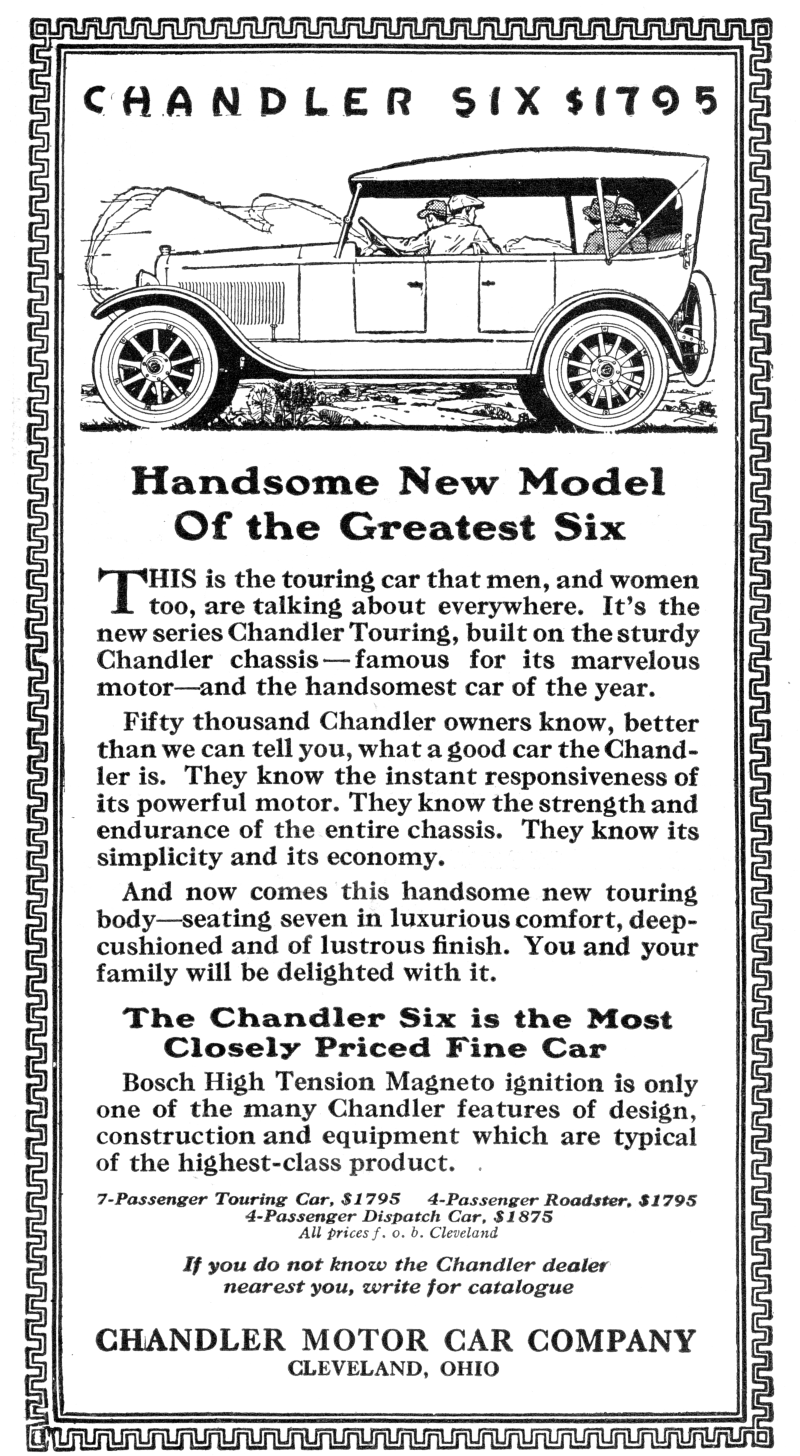 Chandler Motor Car Company advertisement from a 1919 magazine